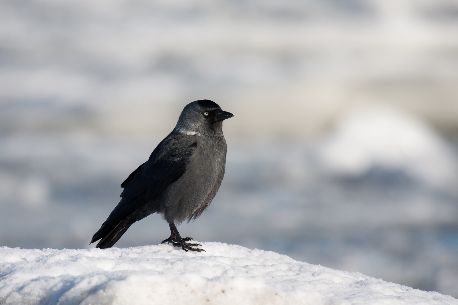 A Jackdor in Kadriog, Tallinn, Harju County, Estonia. It is standing on snow.